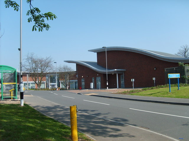 Corbett Hospital The new outpatient department.